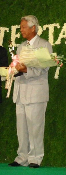 Chalong Pukdeewichit at Star Entertainment Awards 2007